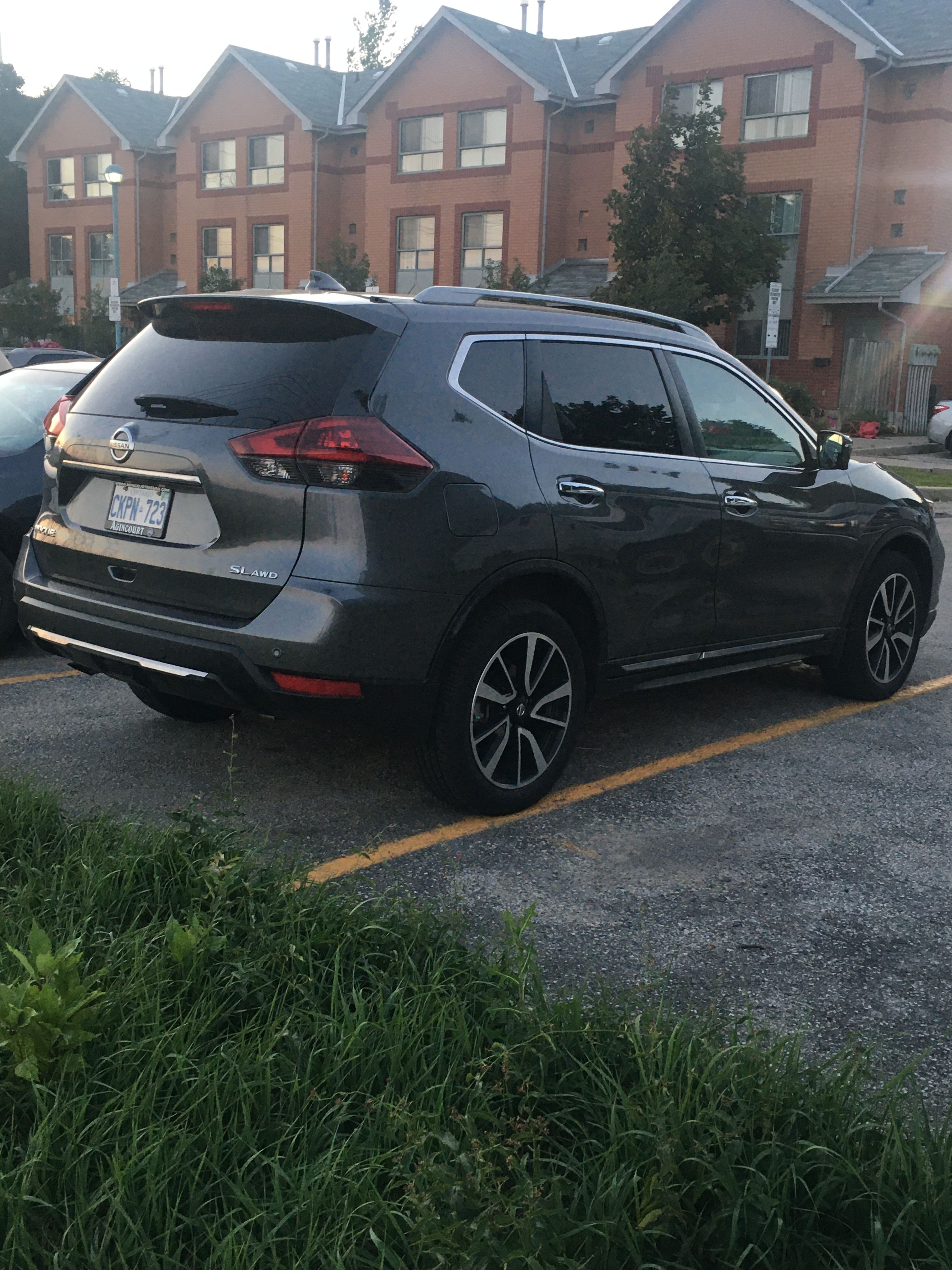 Nissan Rouge rear taken in Scarborough, Canada